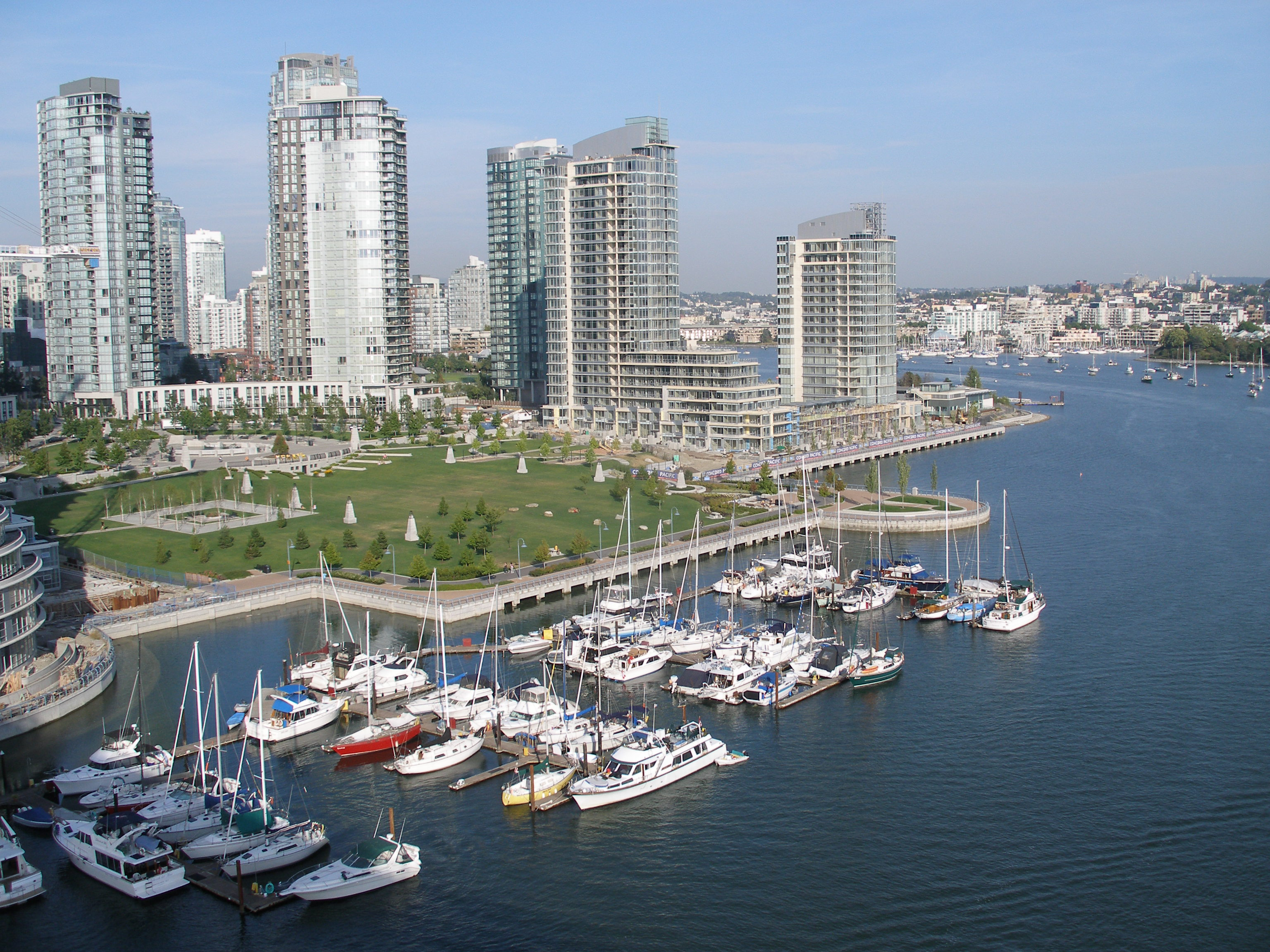 Taken from the Granville Bridge, Vancouver, Canada